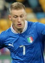 Ignazio Abate and Ashley Cole at Euro 2012 match England-Italy